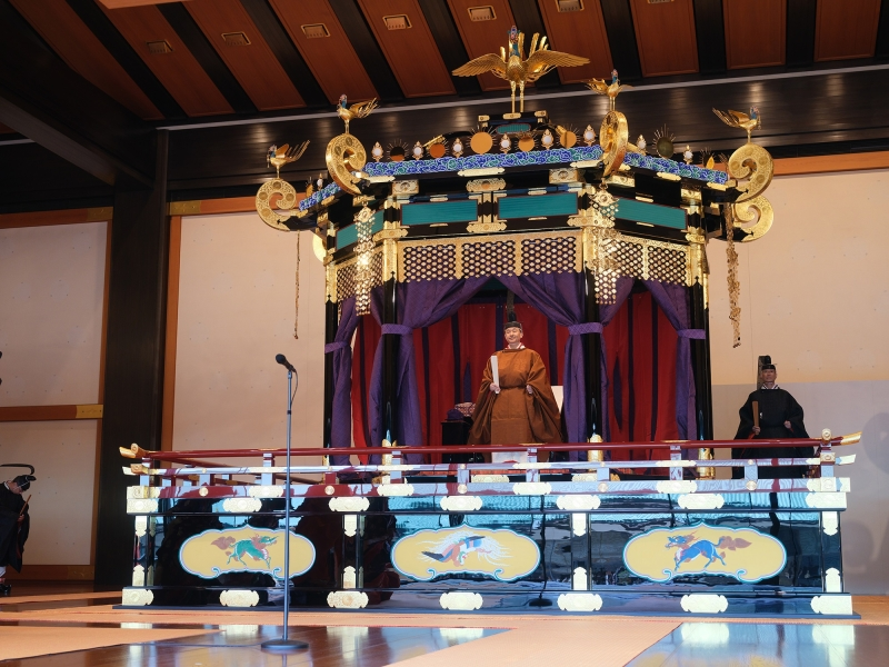 Ceremony of the Enthronement of His Majesty the Emperor at the Seiden